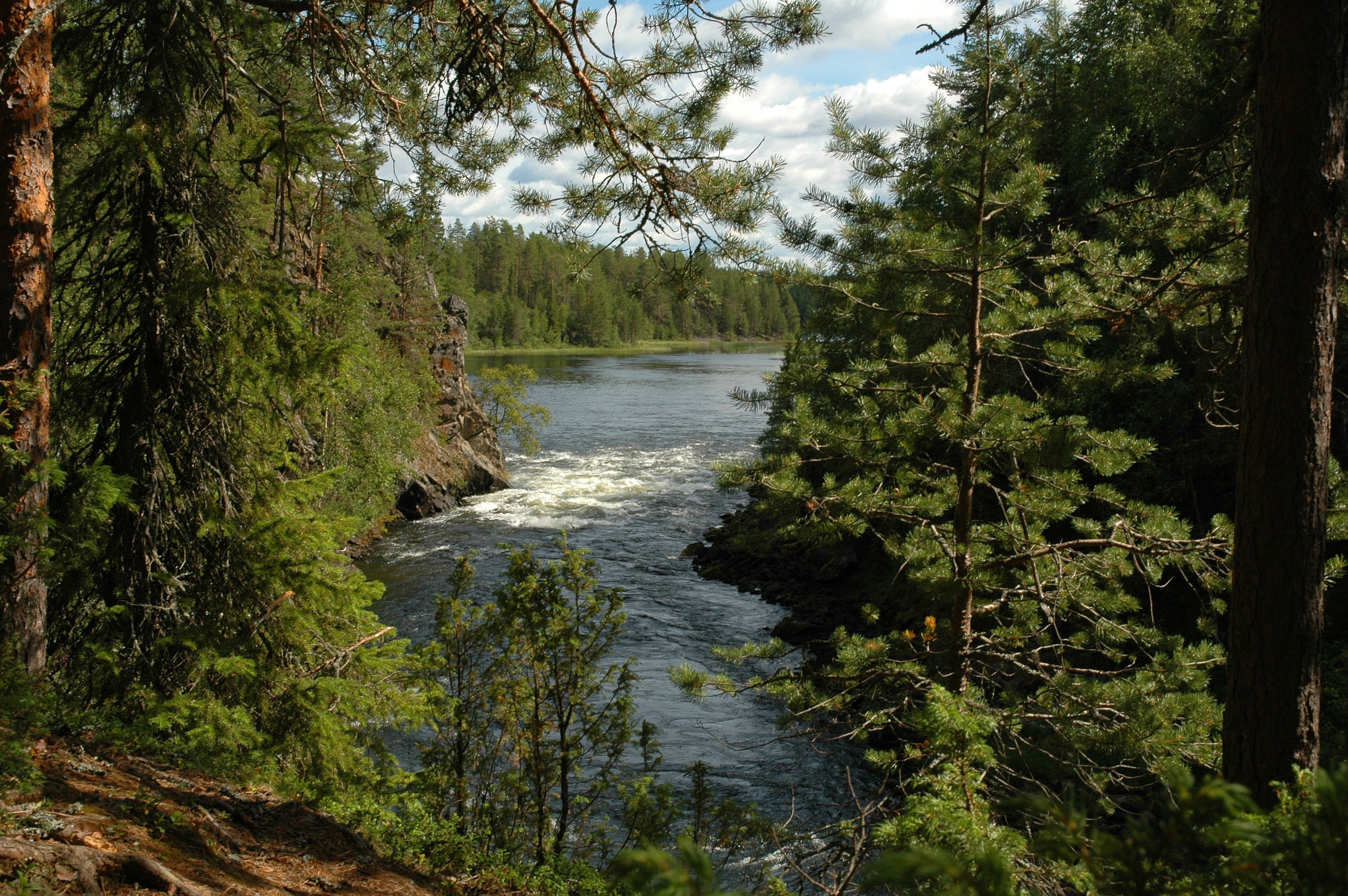 Oulankajoki on "Karhunkierros" (The Route of the Bear) on Finland, close to Kuusamo. Trees are scots pines (Pinus sylvestris).